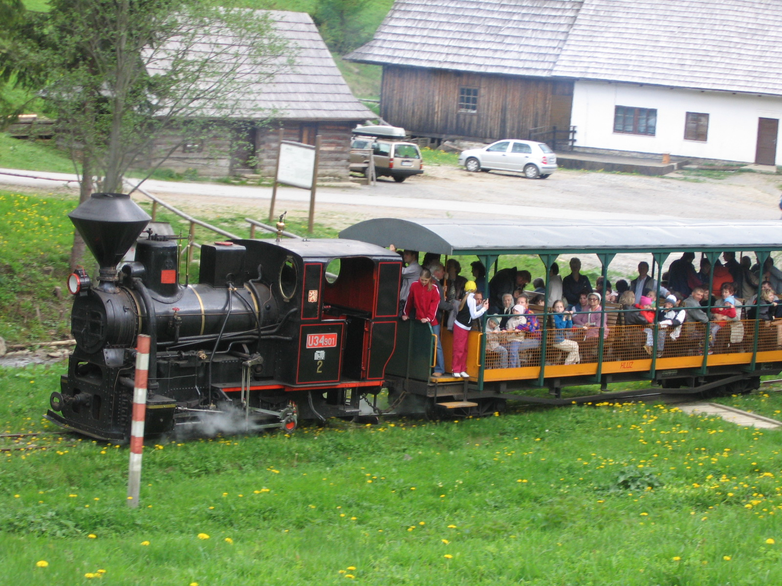 Steam locomotive MÁV U34.901 (2282/1909) built in 1909. Gauge 760 mm